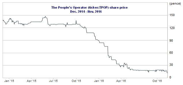 Share price history of the wireless company, The People's Operator (aka "TPO Mobile"). The company has been chaired by Jimmy Wales since 10 February 2015 . Since then, the company's stock price has fallen over 90 percent.